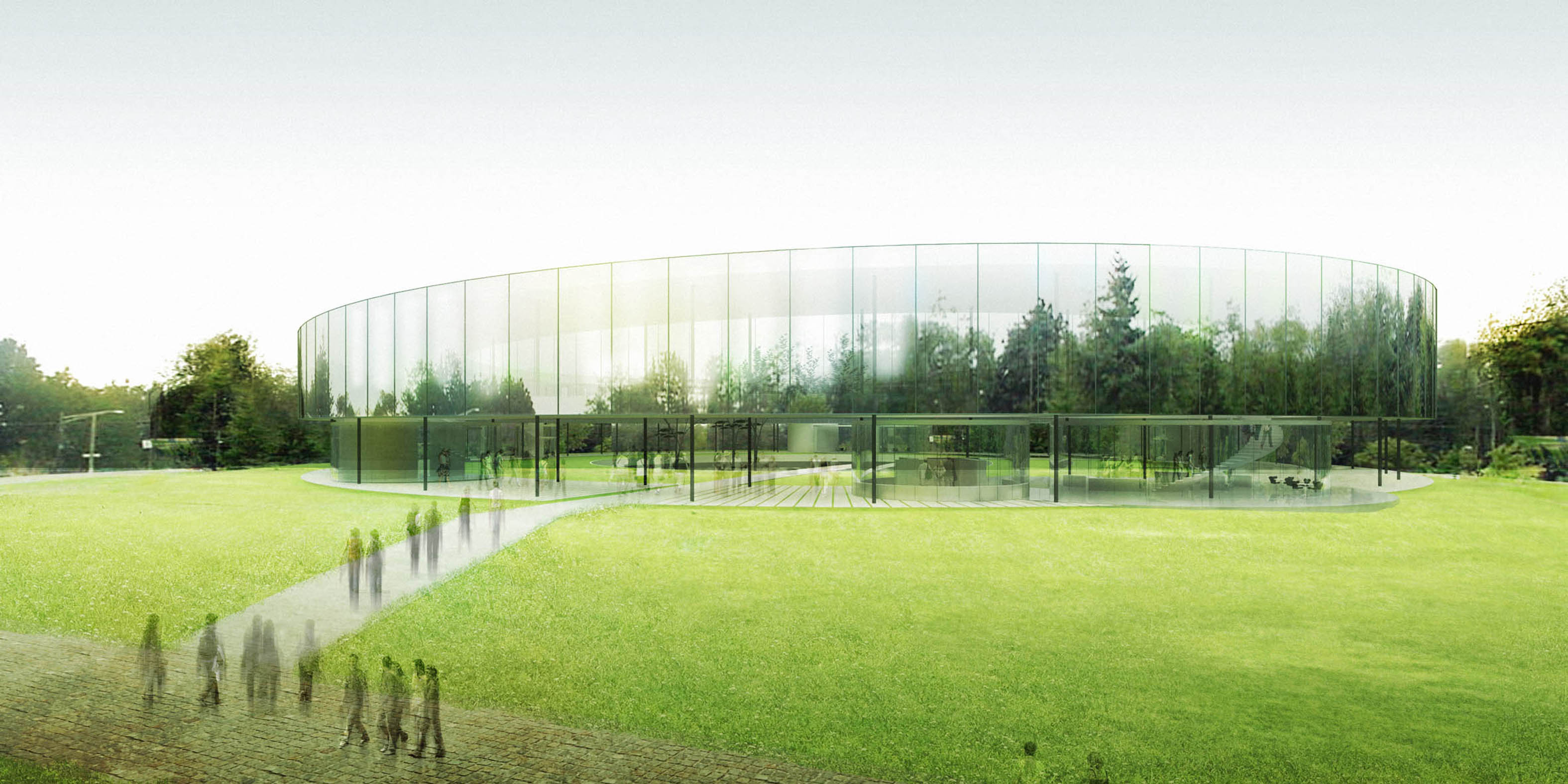 Djordje Alfirevic - Museum of Contemporary Art of Vojvodina